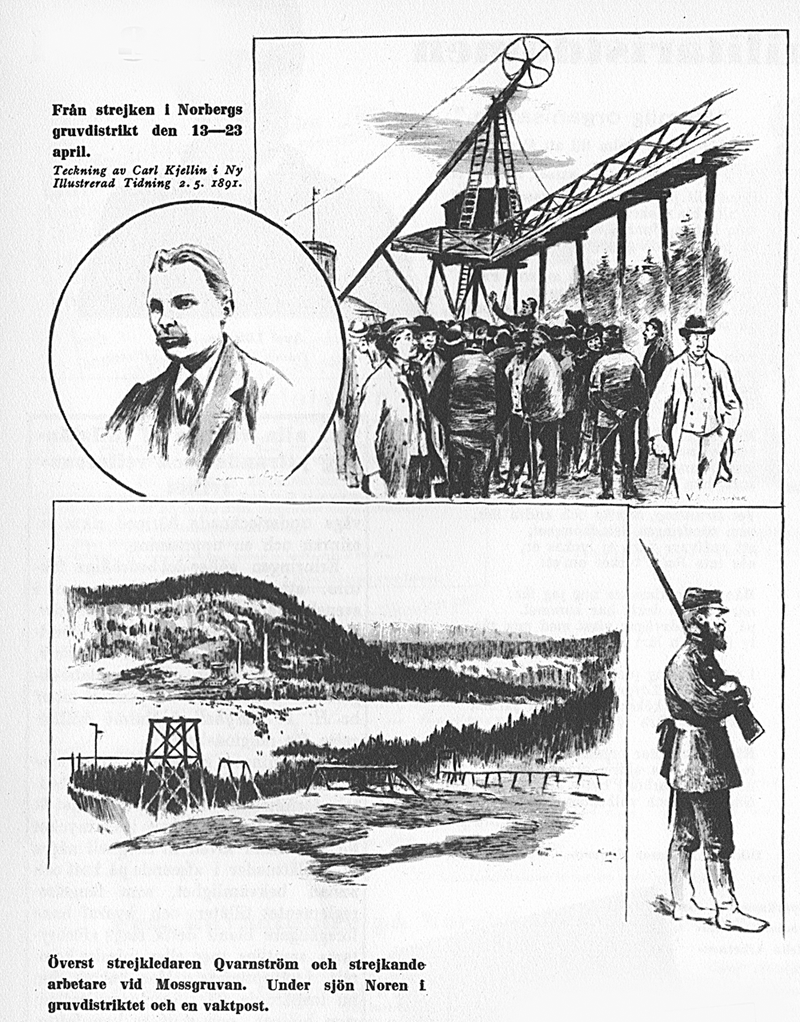 Pictures from labour strike in Norberg, Sweden, 1891